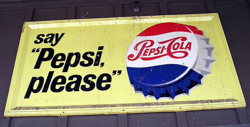 A well-worn 1950's steel sign for Pepsi Cola, a cola brand of Purchase, New York's PepsiCo., photographed at a Cracker Barrel restaurant in Huntsville, Alabama.